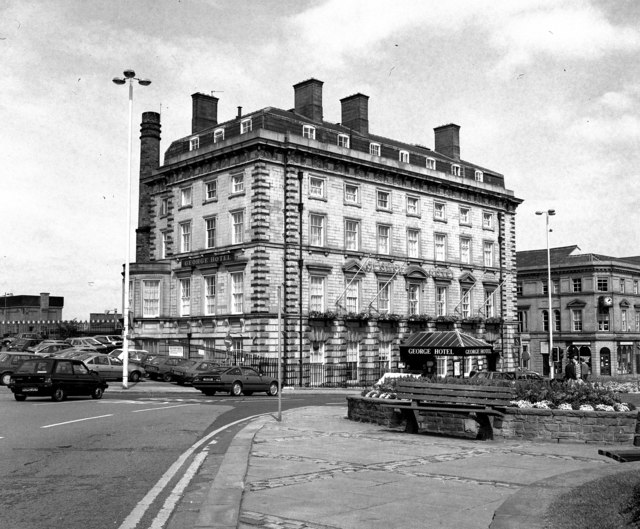 The George Hotel, Huddersfield This imposing building facing St. George's Square in front of the station occupies a unique place in sporting history, because it was here in 1895 that representatives of some eighteen Rugby football clubs met, and resolved to break away from the Rugby Football Union and form their own separate Northern Rugby Football Union, which later became the Rugby Football League. The dispute with the RFU was over payment for 'broken time' when players had to be absent from work in order to play. It was specifically NOT about professionalism, as has been so mis-represented by Rugby Union interests over the years.